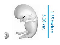 Two drawings of an abortus alongside each other. On the left is an embryo at 4 weeks after fertilization (6 weeks gestational age, crown-rump length is about 0.2 inches). On the right is a fetus 8 weeks after fertilization (10 weeks gestational age, crown-rump length is about 1.25 inches).